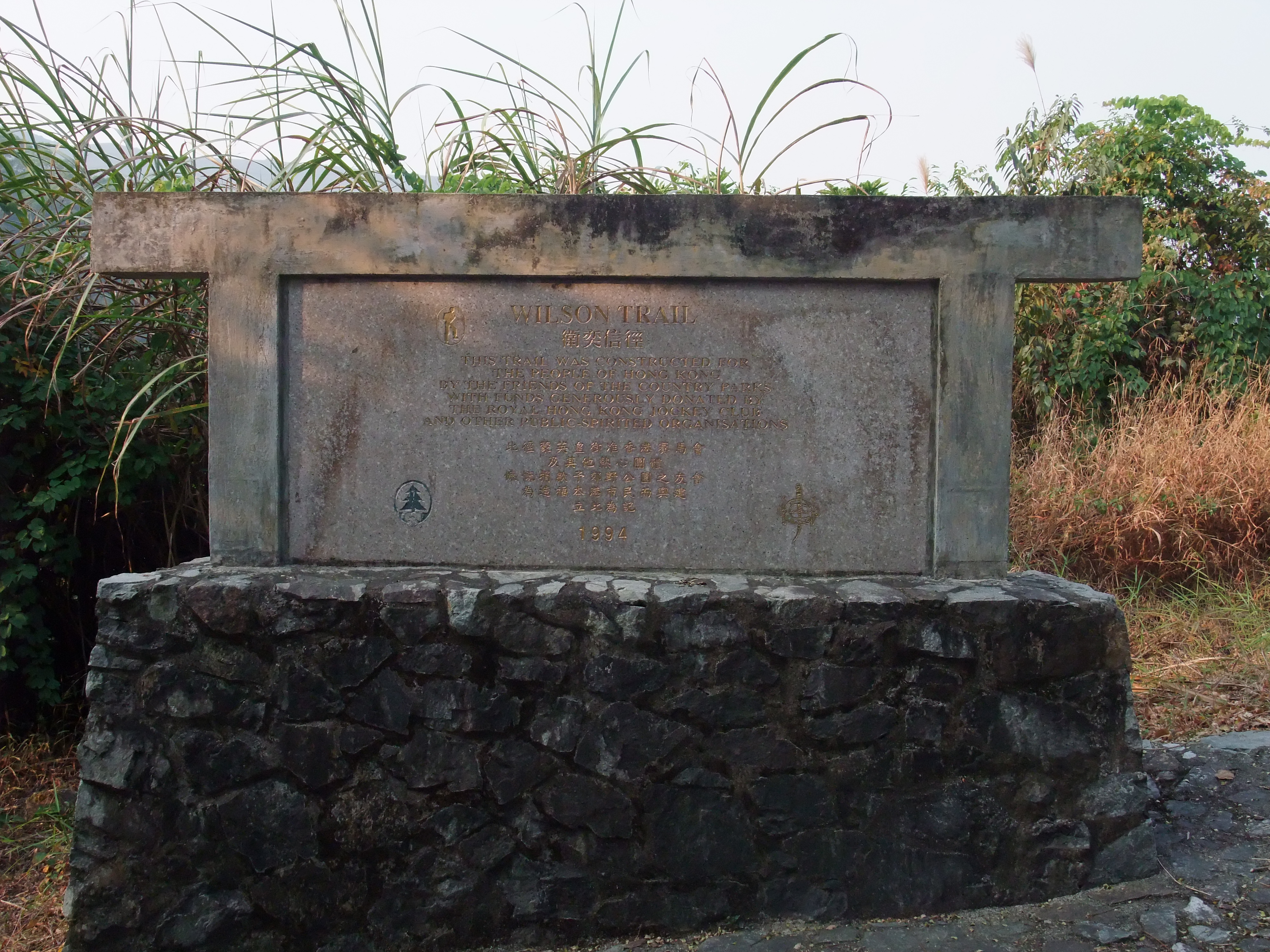 Photo of Wilson Trail Stage 10 at Nam Chung